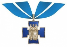 Outline Order of the Heavenly Hundred Heroes of Ukraine